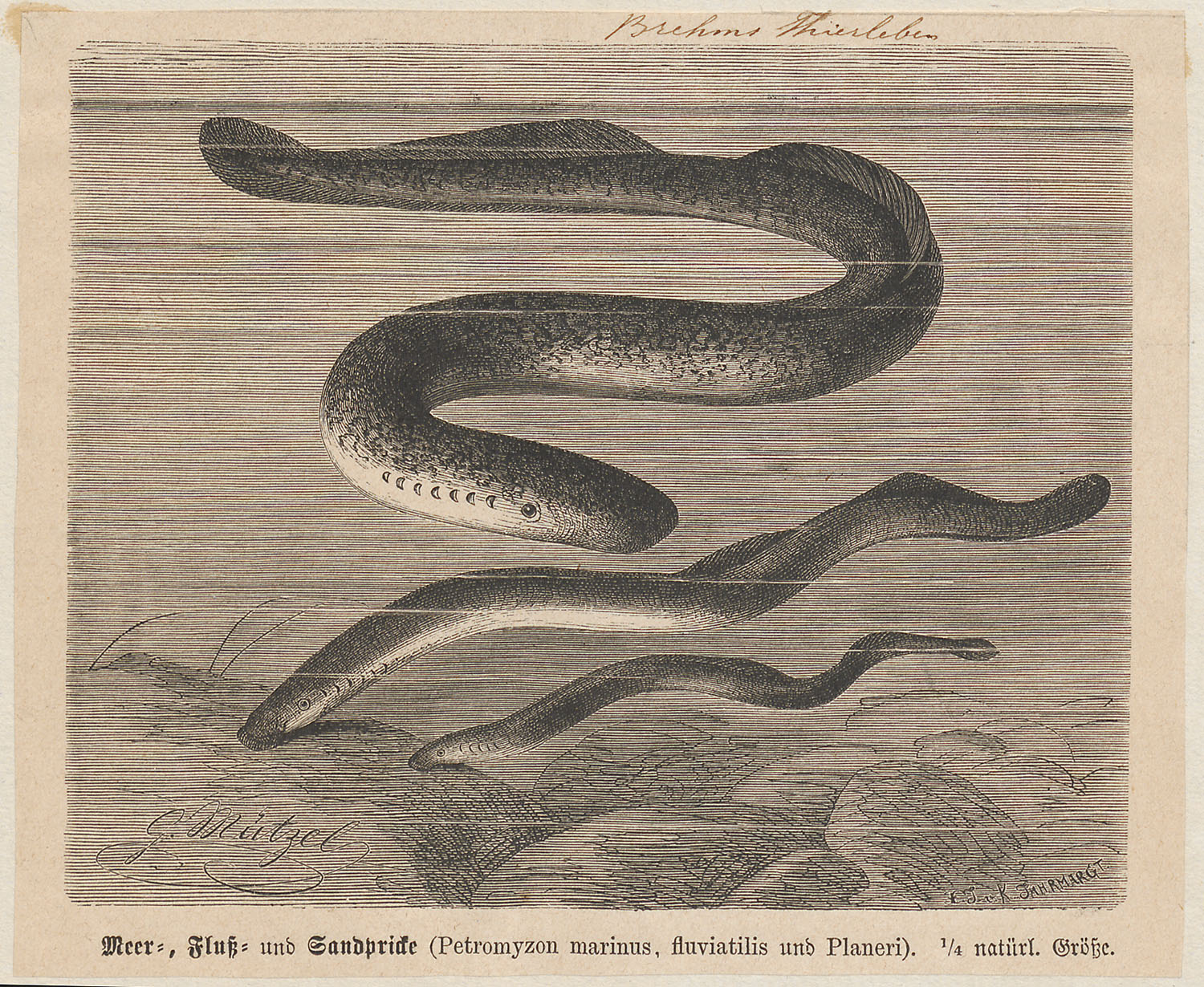 3 species of northern lampreys depicted in the Dutch collection Iconographia Zoologica.